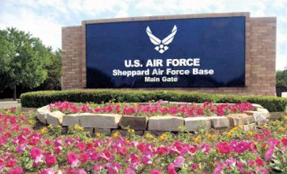 Main Gate, Sheppard AFB, Texas